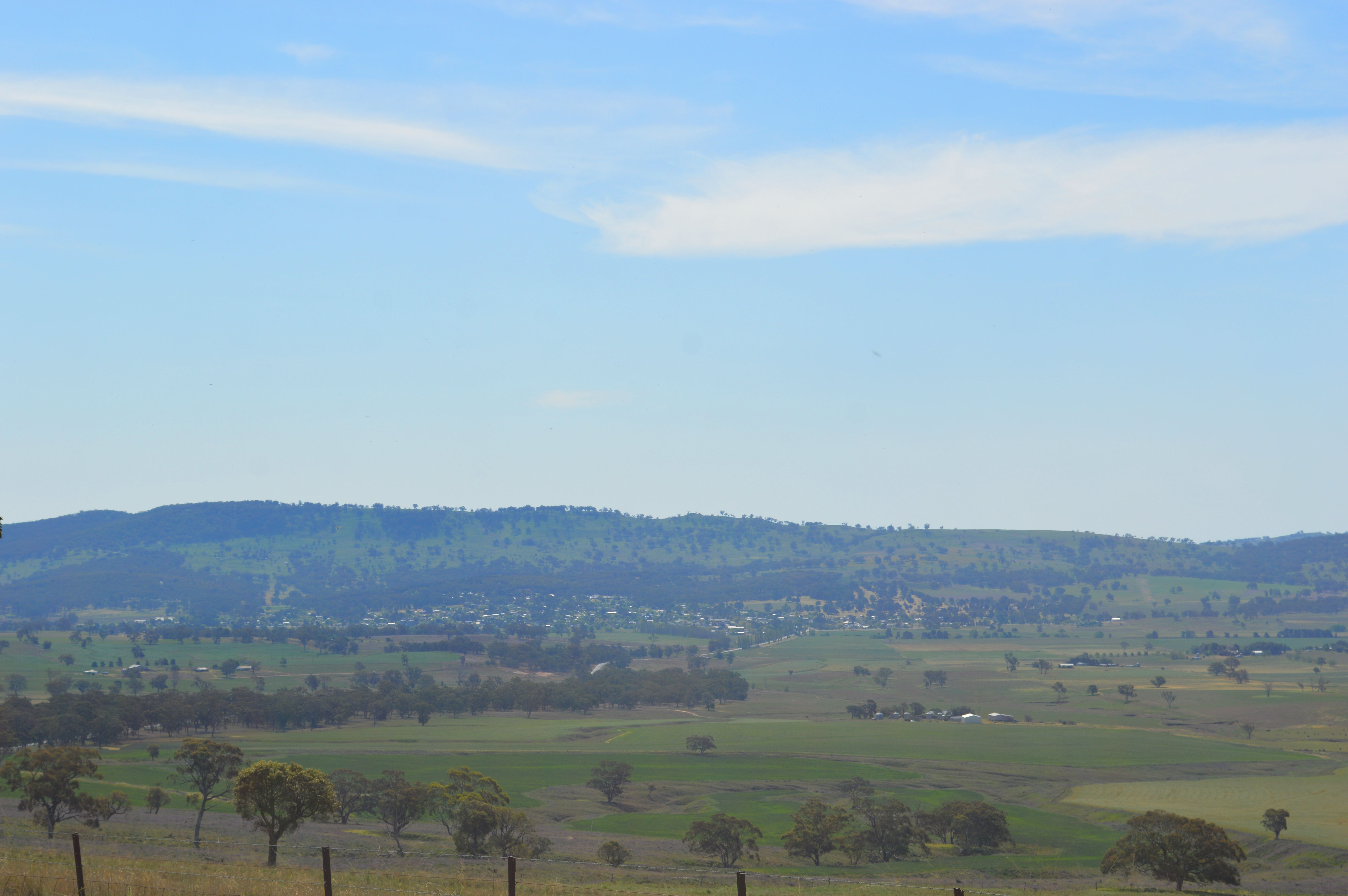 Coolah, New South Wales seen from a lookout